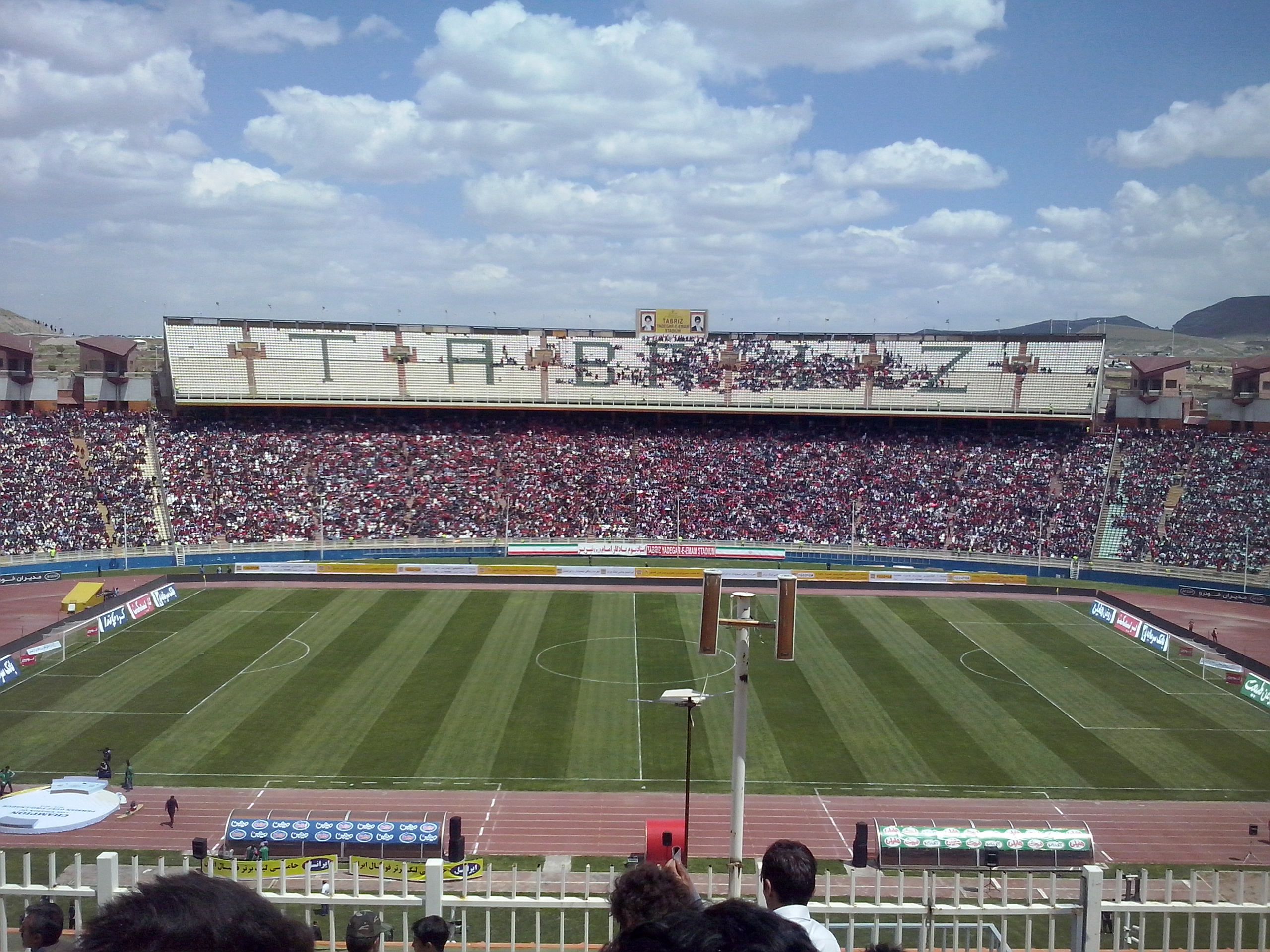 Tabriz Yadegar Emam stadium Tractor sazi – Naft Tehran